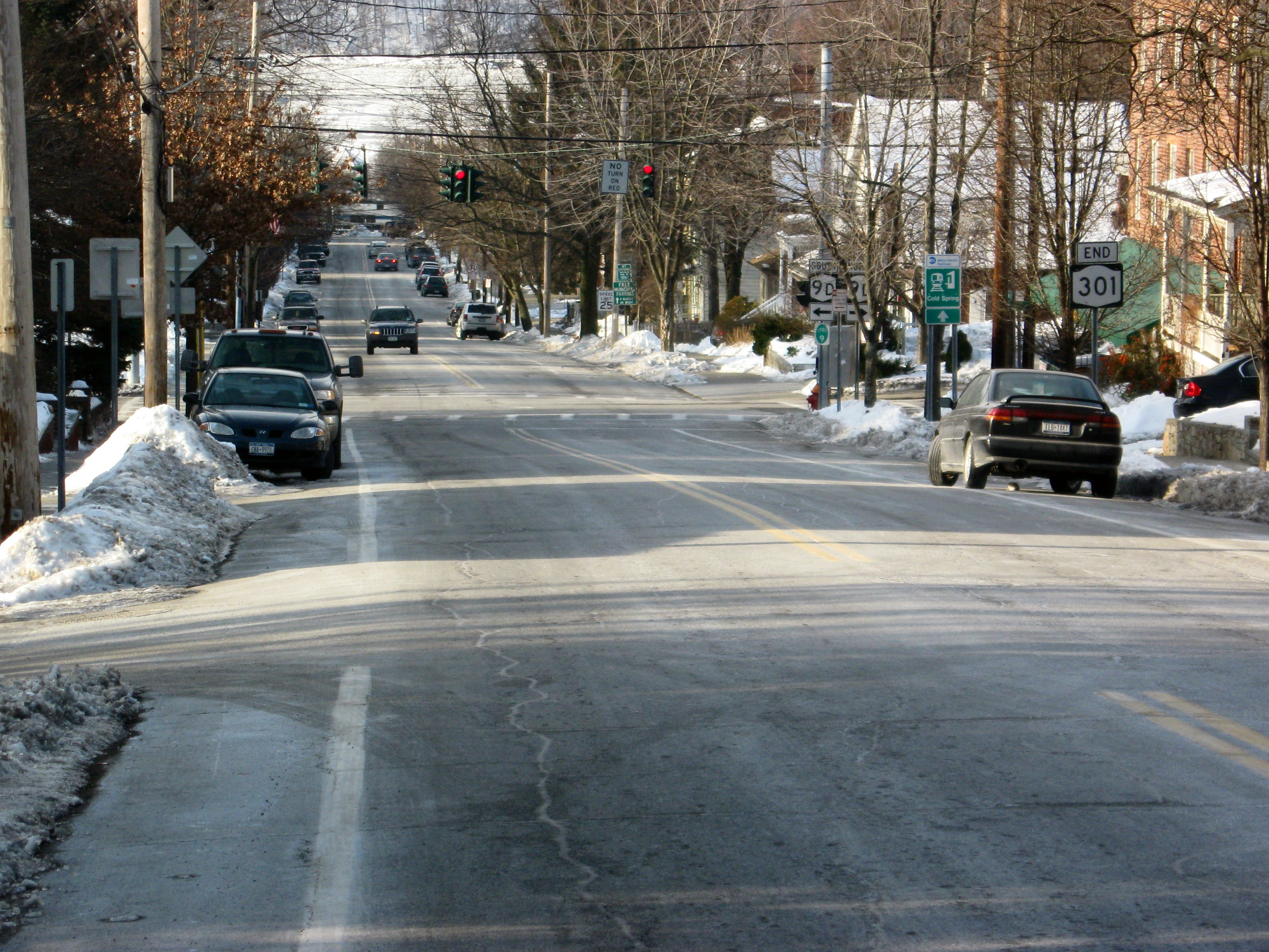 The western terminus of New York State Route 301 at New York State Route 9D in Cold Spring, New York. Beyond that point, is the Cold Spring Metro-North railroad station according to that sign between the "END NY 301" sign, and NY 9D/NY Bike Route 9 signs.